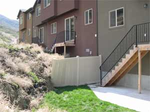 A Cedar Hills home destroyed by the 2005 landslide.